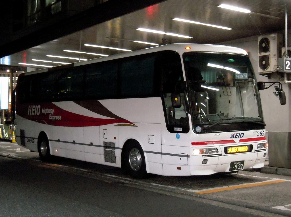 Keio bus East Highwaybus "Shibuya,Shinjuku(Tokyo)-Umeda(Osaka)"